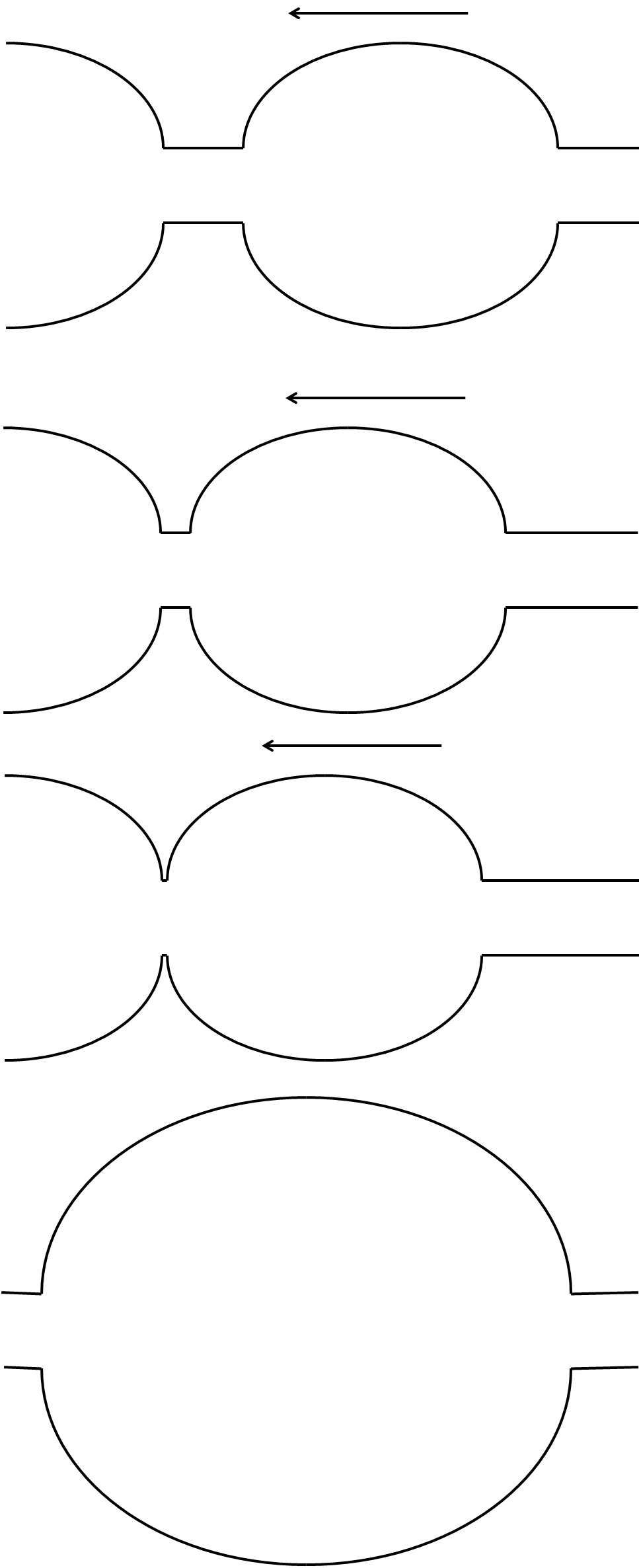 Collision phenomenon in bead string structure